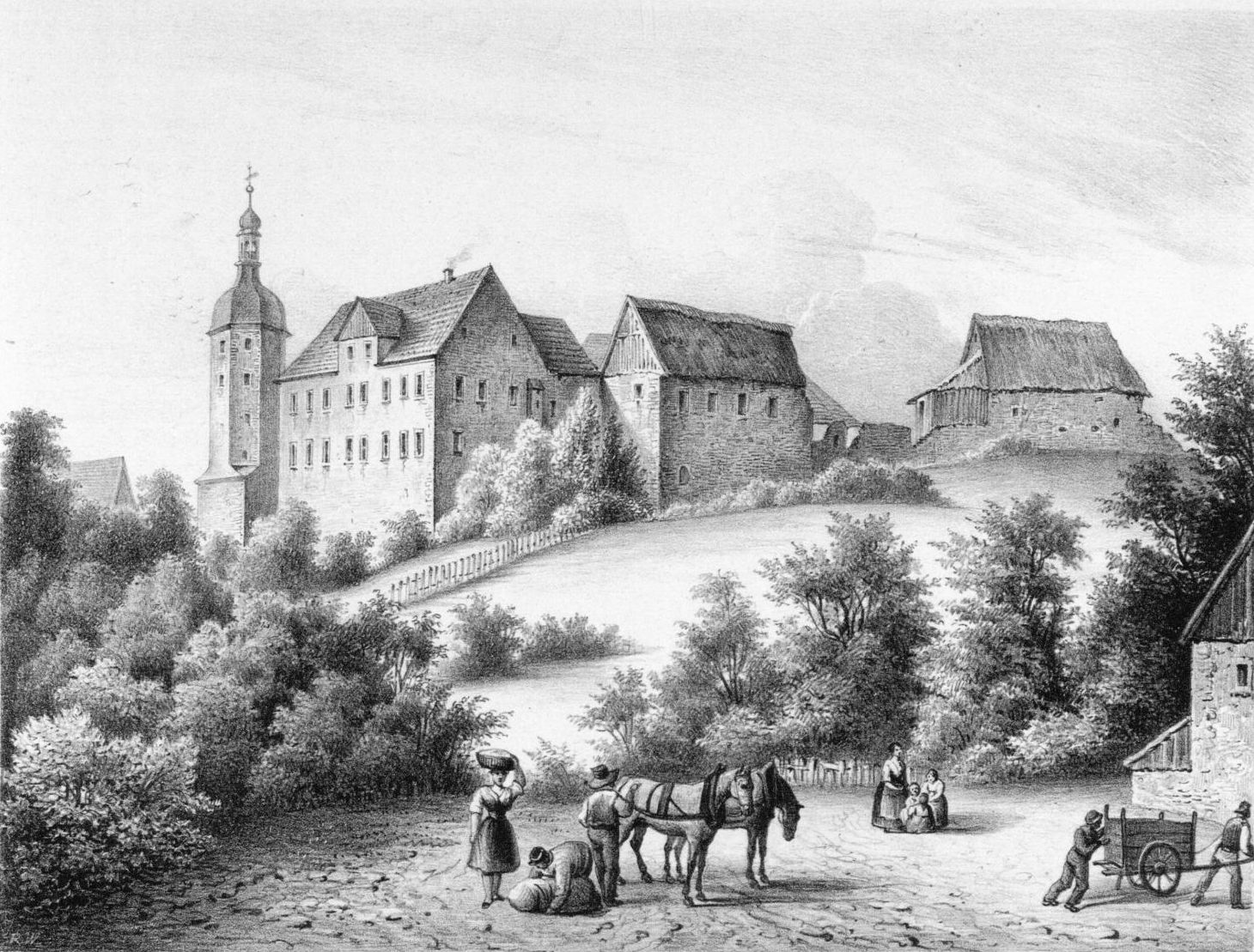 manor Geyersberg in Geyer in its estate of 1859